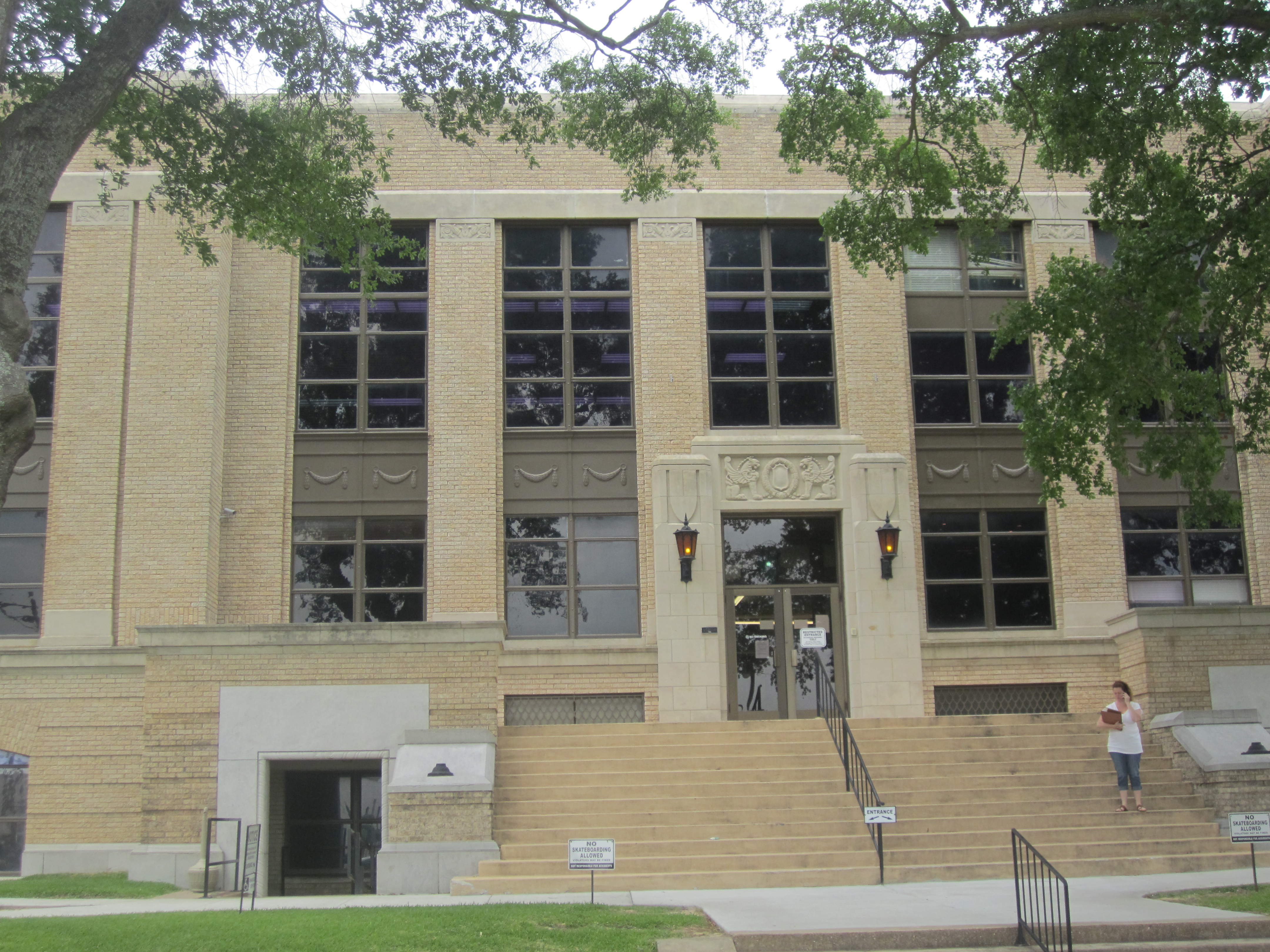 I took photo with Canon camera in Henderson, TX.